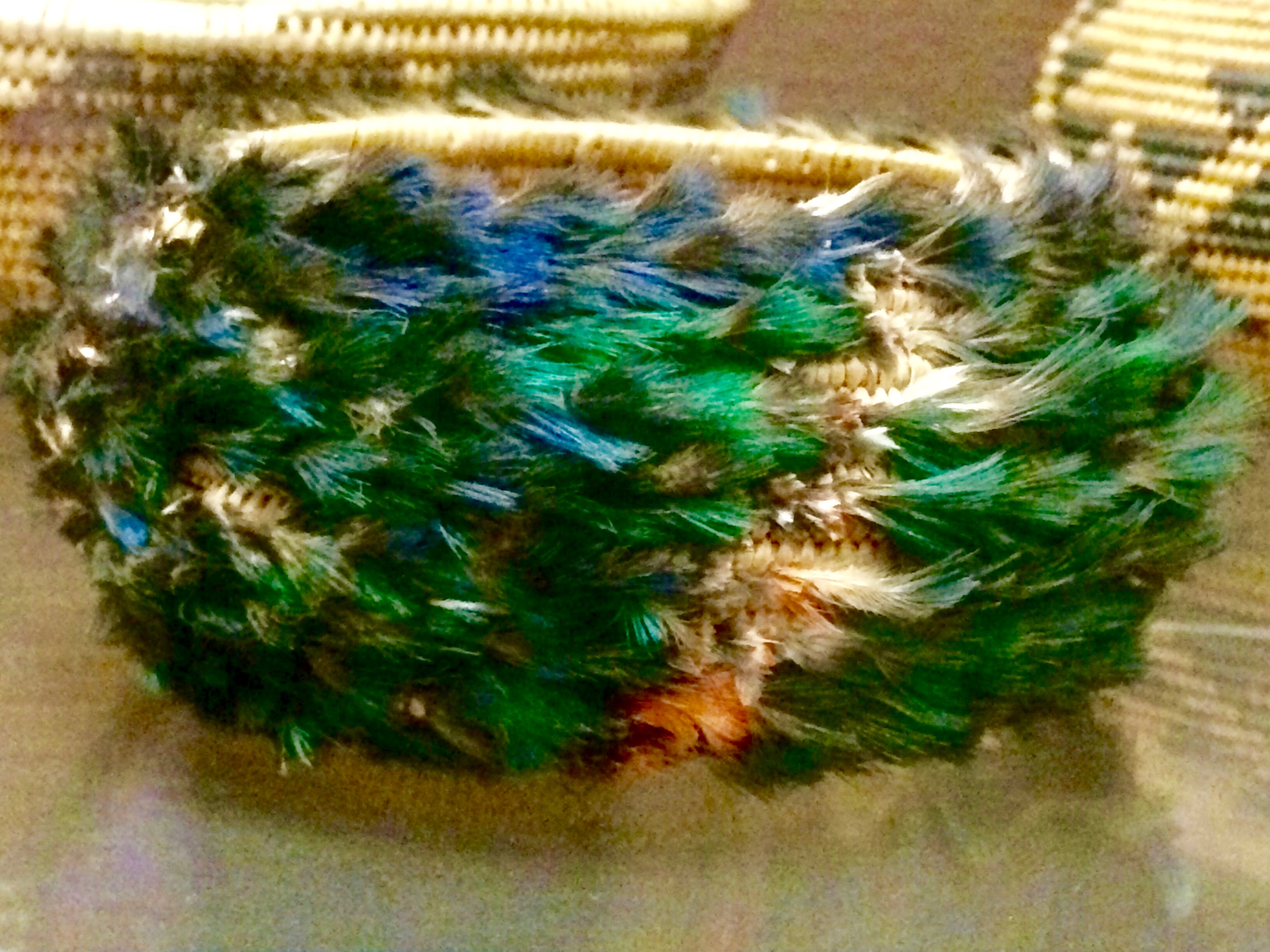 Fully feathered basket as made by the Coast Miwok, Pomo, Lake Miwok, and Wappo people of Northern California. Display at Indian Grinding Rocks State Park, Volcano, California.